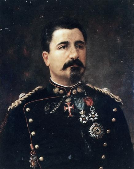 Artillery Major Nikolaos Zorbas, later figurehead leader of the Goudi coup of 1909